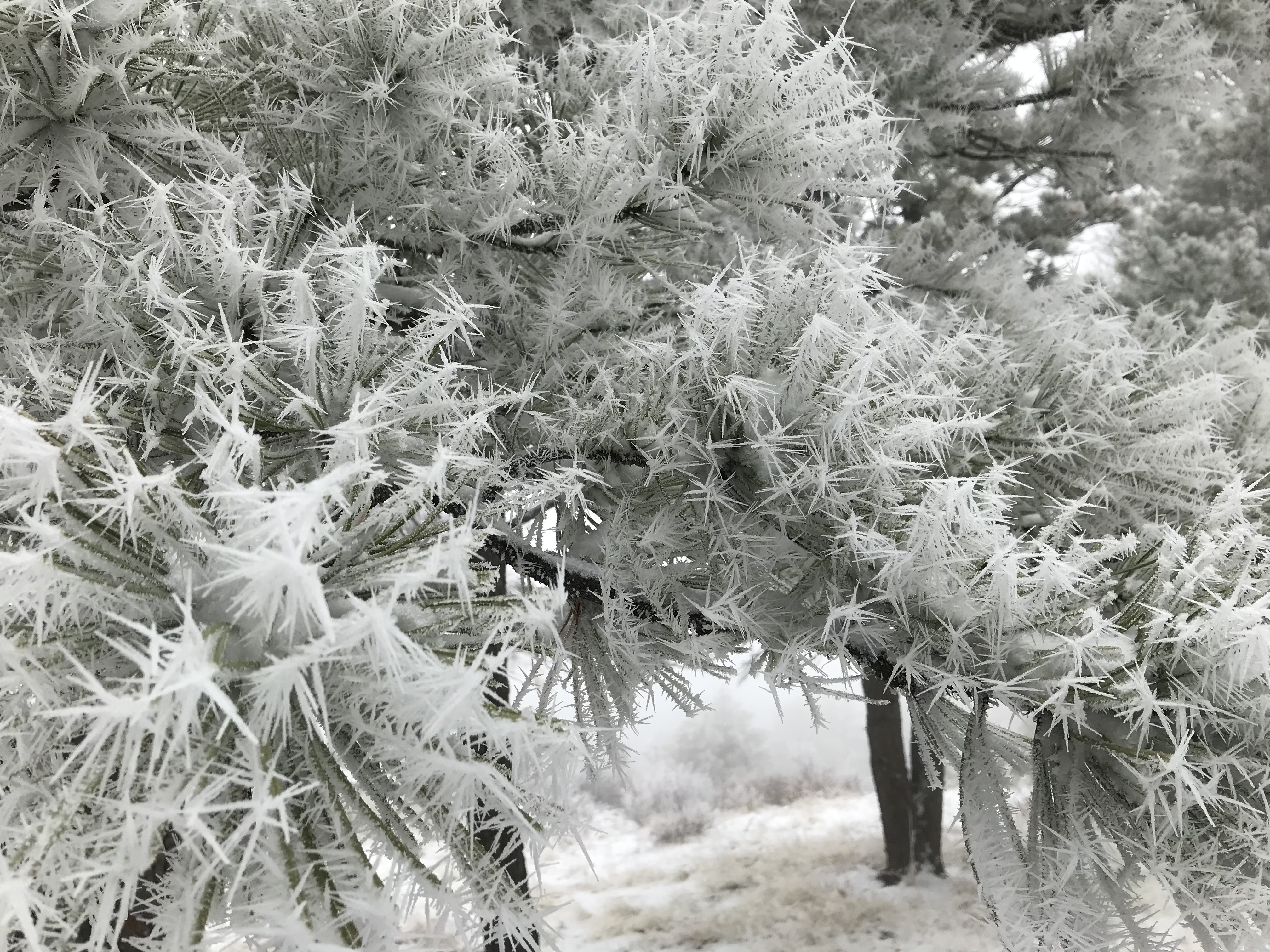 Soft rime formed on ponderosa pine in Front Range of Colorado USA